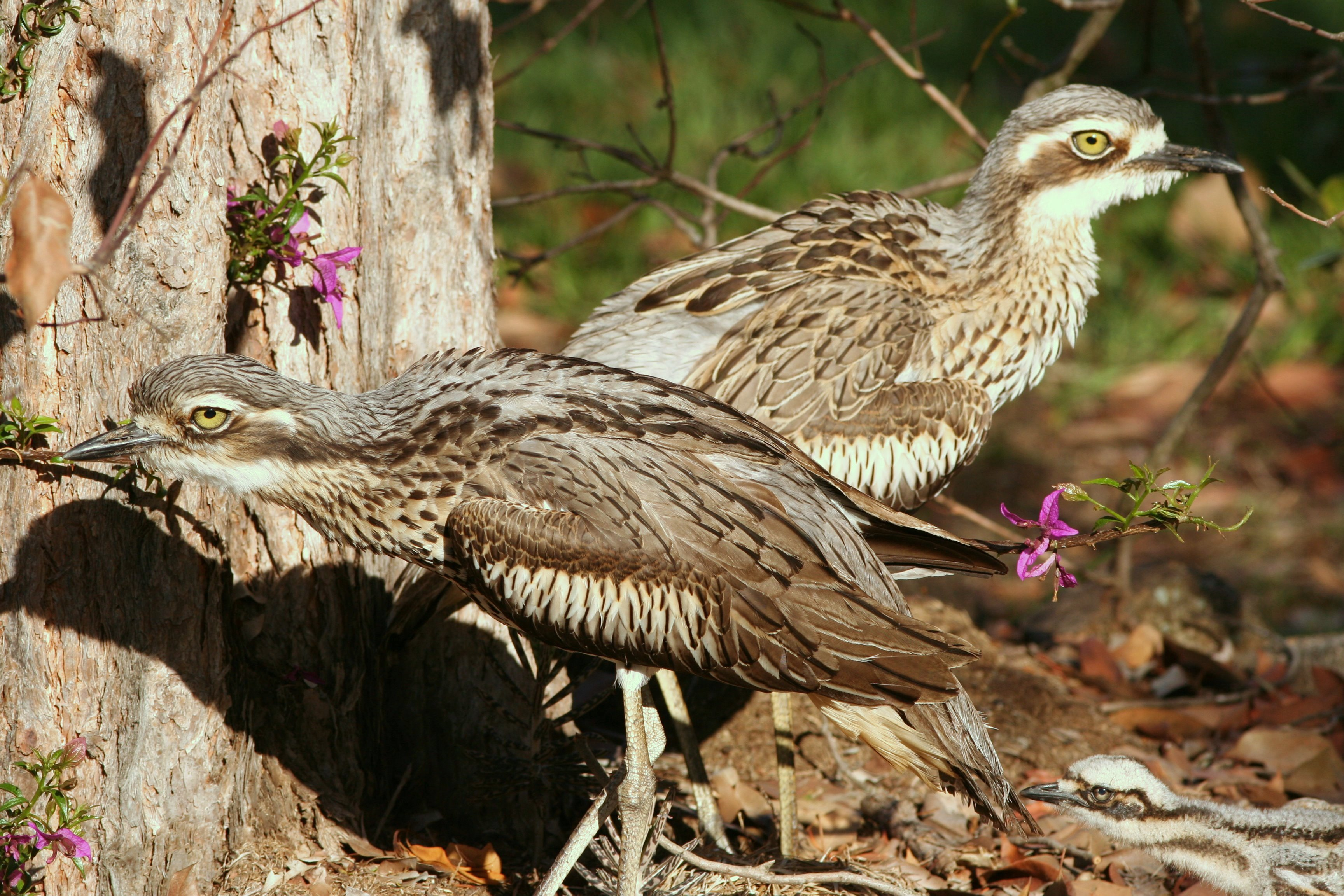 Bush Stone-curlew pair, Burhinus grallarius, with chick, lower right.